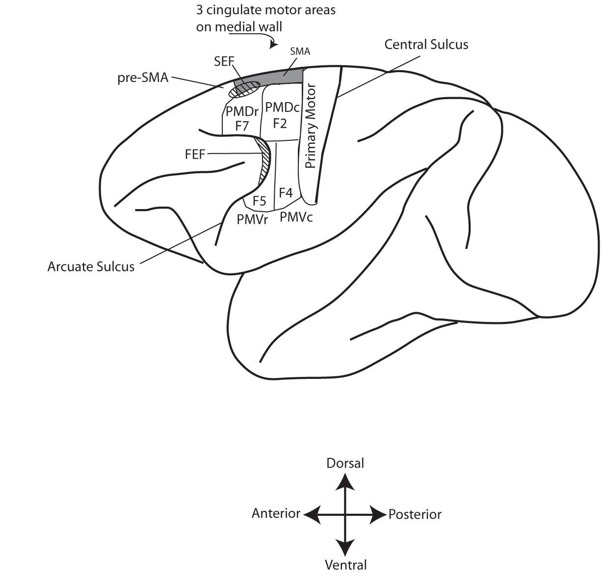 Graziano, MSA(2008) The Intelligent Movement Machine. Oxford University Press. Figure originally by Graziano, M.S.A. Some commonly accepted divisions of the cortical motor system of the monkey. PMDr = Dorsal premotor cortex, rostral division, also sometimes called Field 7 (F7). PMDc = Dorsal premotor cortex, caudal division, also sometimes called Field 2 (F2). PMVr = Ventral premotor cortex, rostral division, also sometimes called Field 5 (F5). PMVc = Ventral premotor cortex, caudal division, also sometimes called Field 4 (F4). SMA = supplementary motor area. SEF = supplementary eye field, a part of SMA. Pre-SMA = pre-supplementary motor area. FEF = frontal eye field.